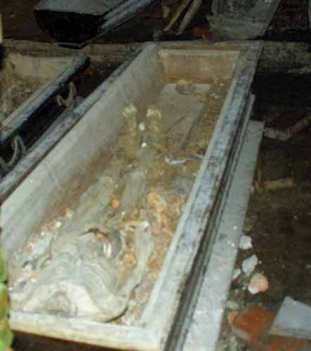 Mummy from the pyramid in Rapa.